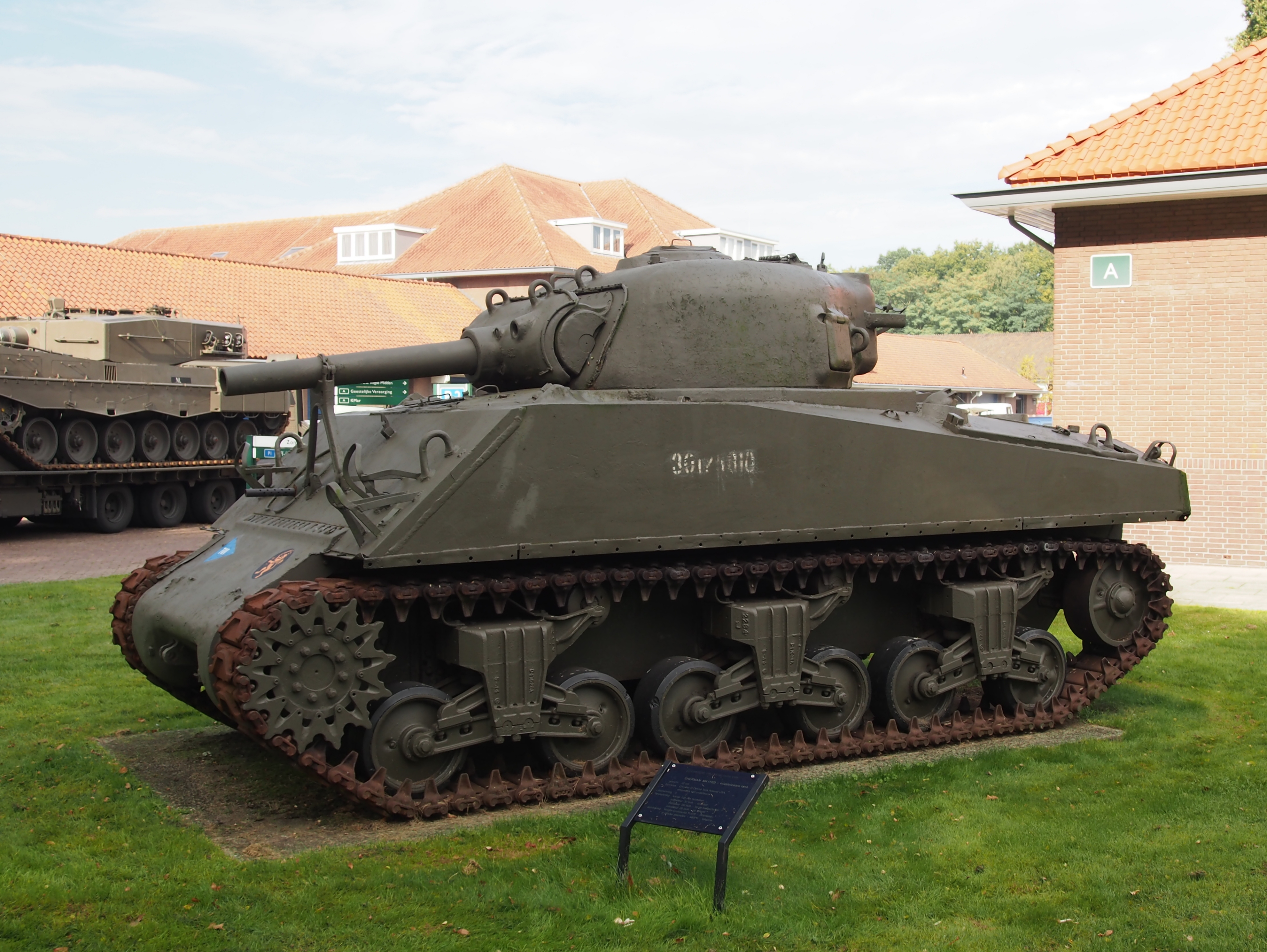 Photographed at the Prins Bernhard kazerne.